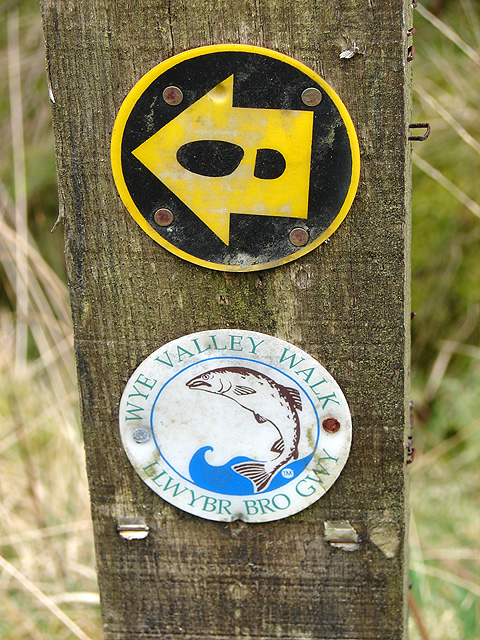 Wye Valley Walk waymark In the forestry area at Tarenig.